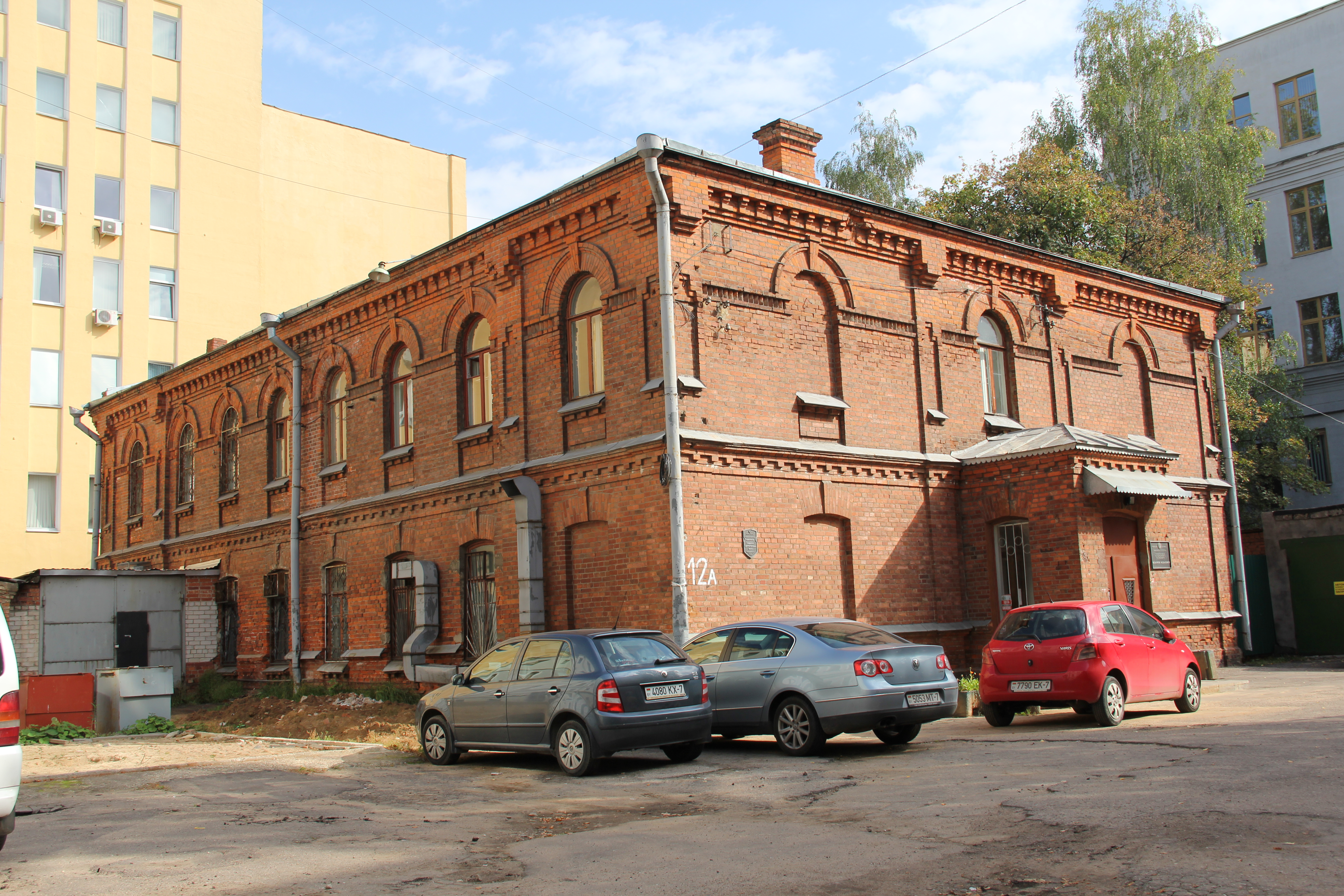 Беларуская (тарашкевіца): Будынак. г. Менск This is a photo of Belarusian heritage monument. Reference number: 713Г000117 ( WLM)